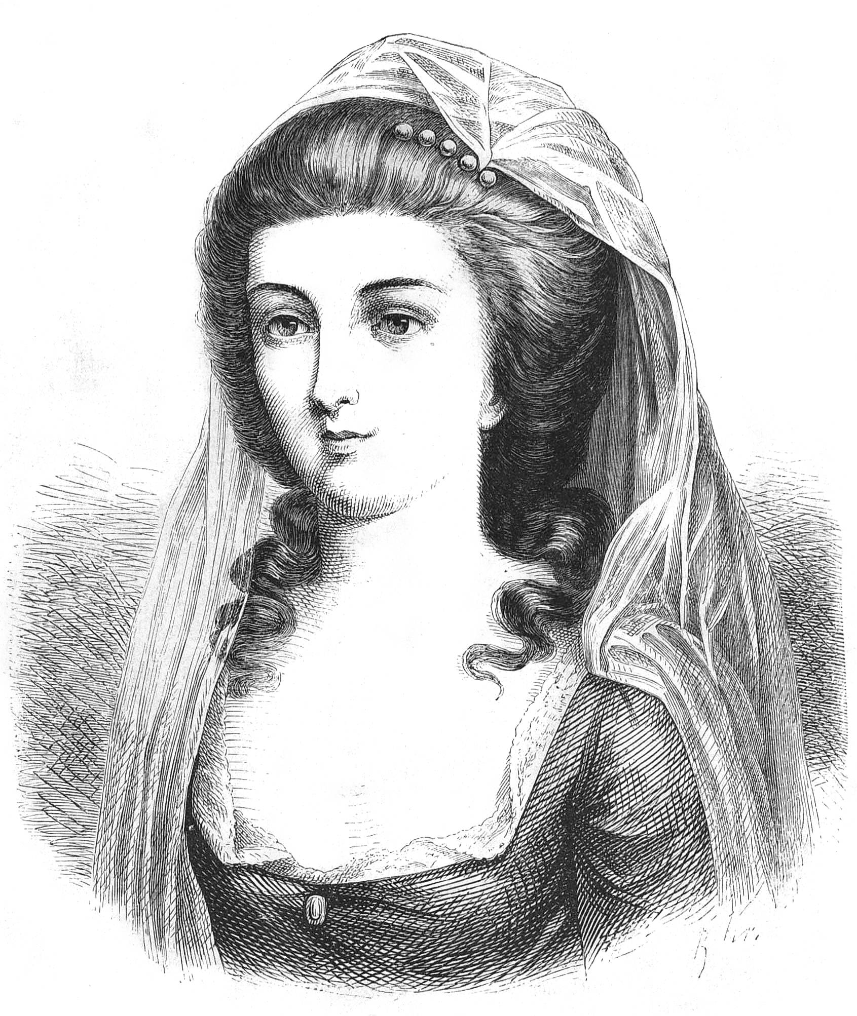 no caption